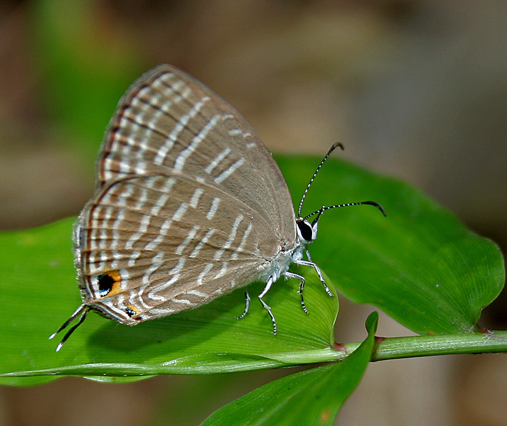 Common Cerulean Jamides celeno at Talakona forest, in Chittoor District of Andhra Pradesh, India.